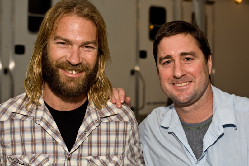 Texas Film Hall of Fame Awards 2009